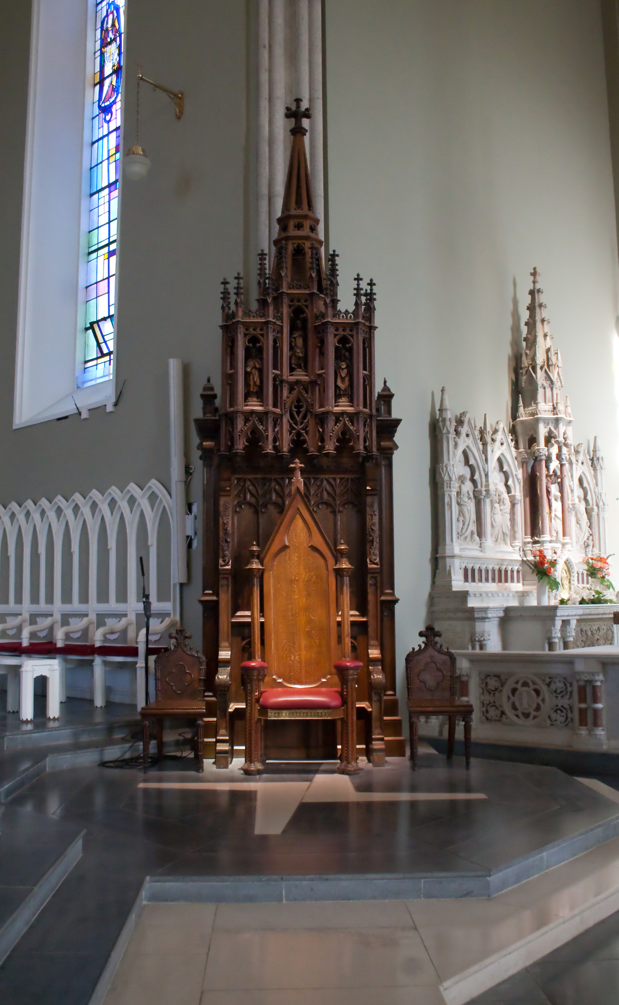 Carlow, County Carlow, Ireland Cathedra of Carlow Cathedral.